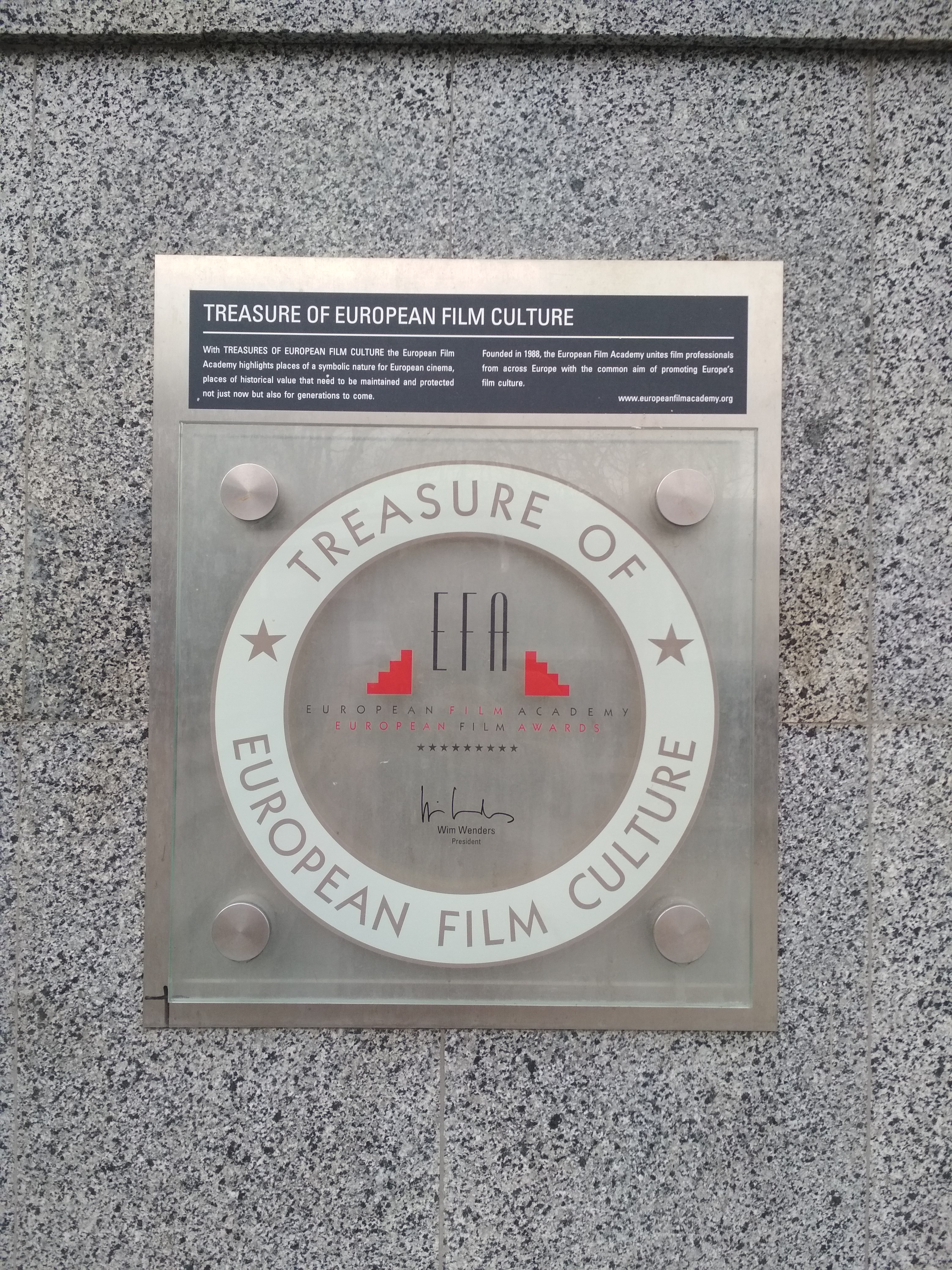 Potemkin Stairs - treasure of european film culture